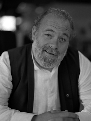 O'Neal Compton, self portrait, in his studio in Venice California, 1996